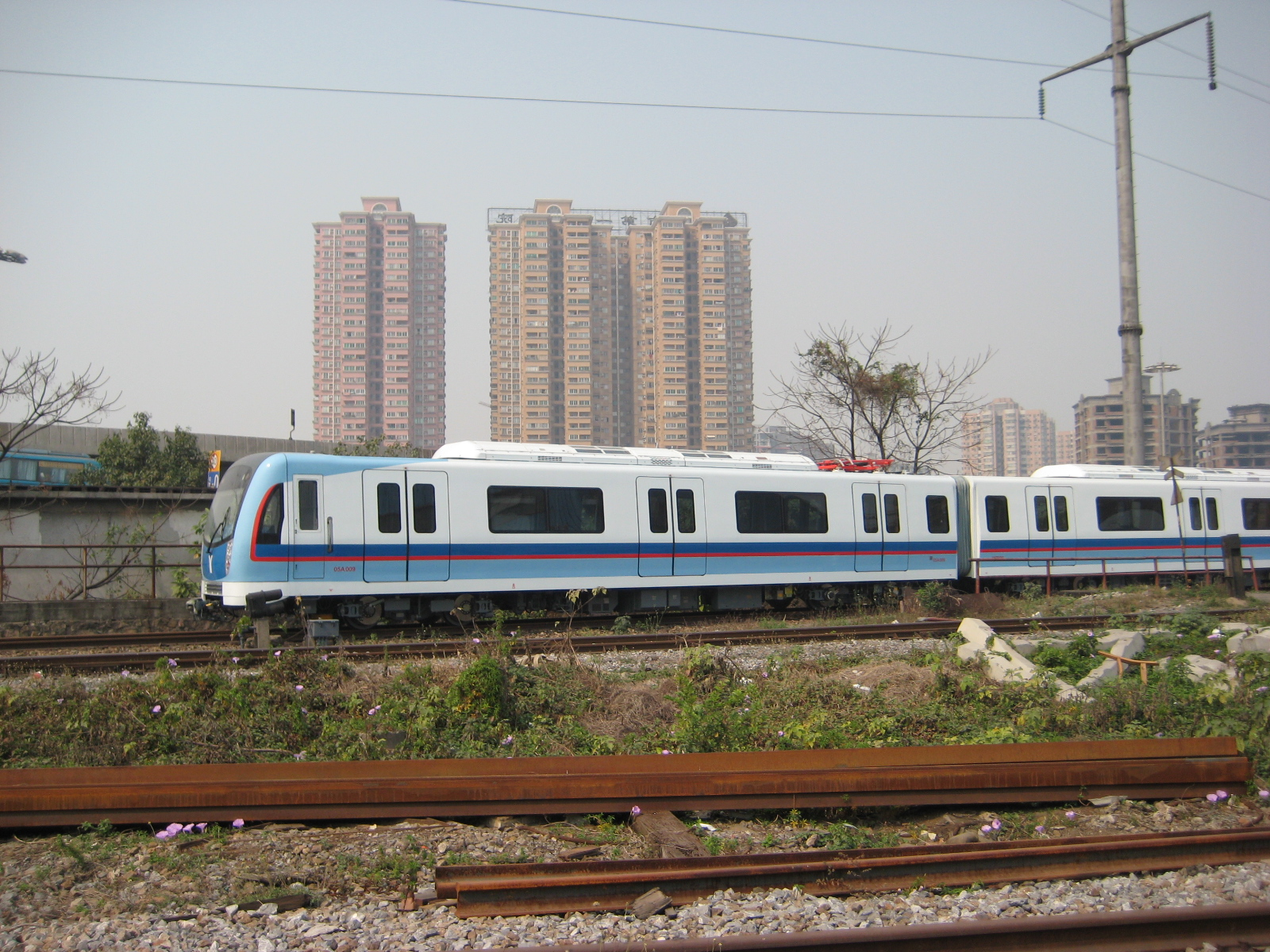 Guangzhou Metro Line 5 Liner Motor Vehicle